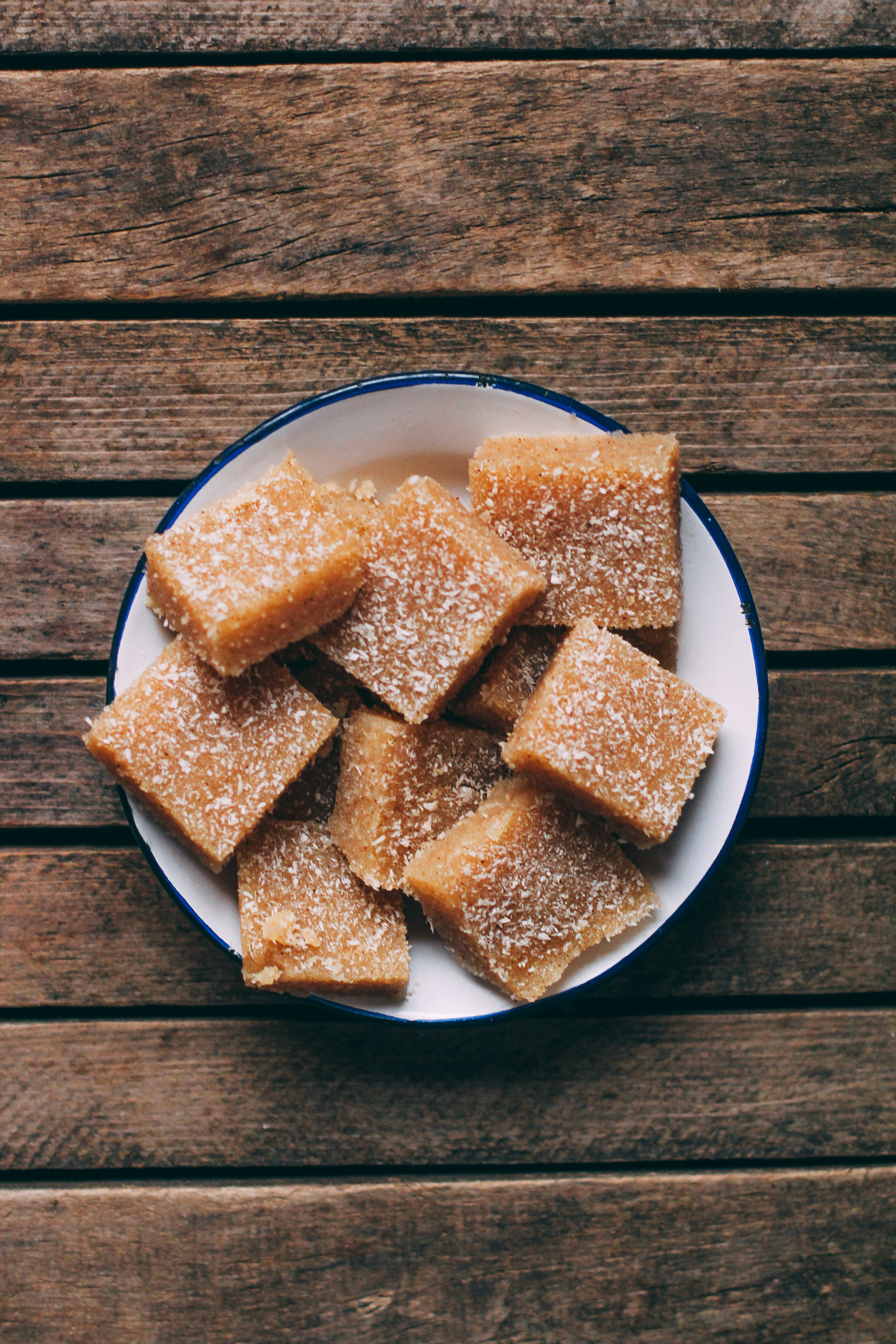 Halva